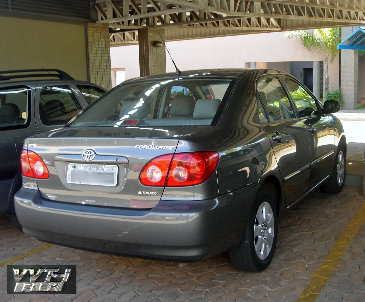 Brazilian flex-fuel version of Toyota Corolla XE VVTi Flex 2.0 automatic, shown rear view with Flex logo inserted with Photoshop (fixture is actually in the right hand side not in the rear as the other Brazilian flex-fuel)